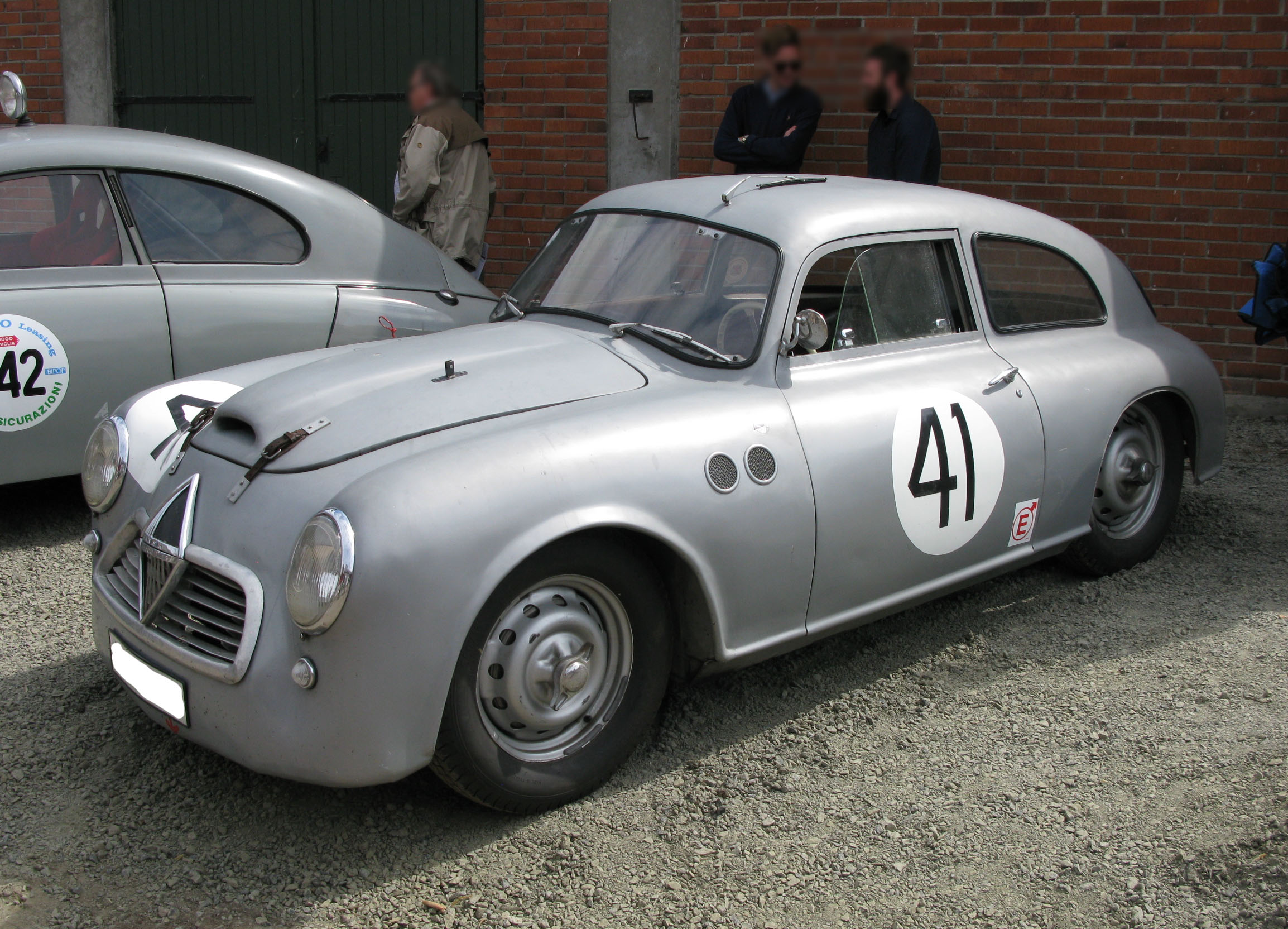 1953 Borgward Hansa 1500 Sportcoupé. Event: 60 year anniversary of the Swedish Grand Prix in Kristianstad.